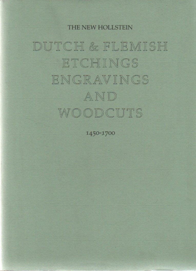 The New Hollstein Dutch & Flemish Etchings, Engravings and Woodcuts 1450–1700, book cover